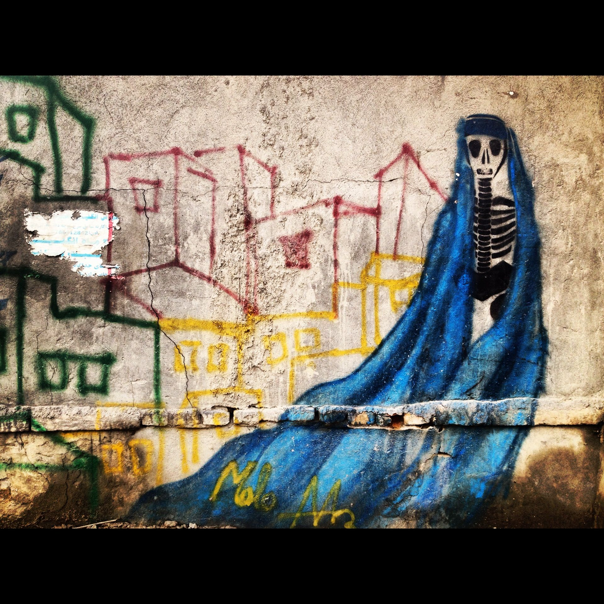 Malina's motif on broken wall in Afghanistan